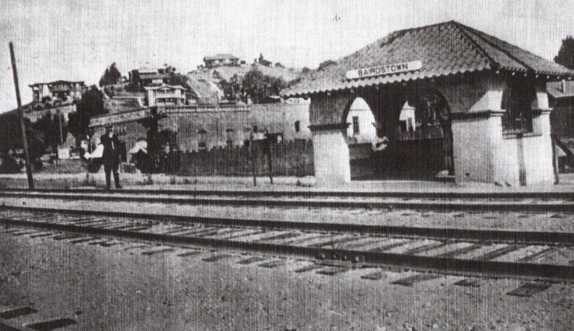 Bairdstown station, early 20th century, Los Angeles County, California. This area later became El Sereno. Other information [1] Photo from History of El Sereno, a paper delivered by George Casen, associate environmental planner and architectural historian, at a meeting sponsored by the El Sereno Coordinating Council in the El Sereno Recreation and Parks Auditorium, 4721 Klamath Street, on April 18, 1994, which paper was released under a Creative Commons license on February 12, 2014. See Talk:El Sereno.